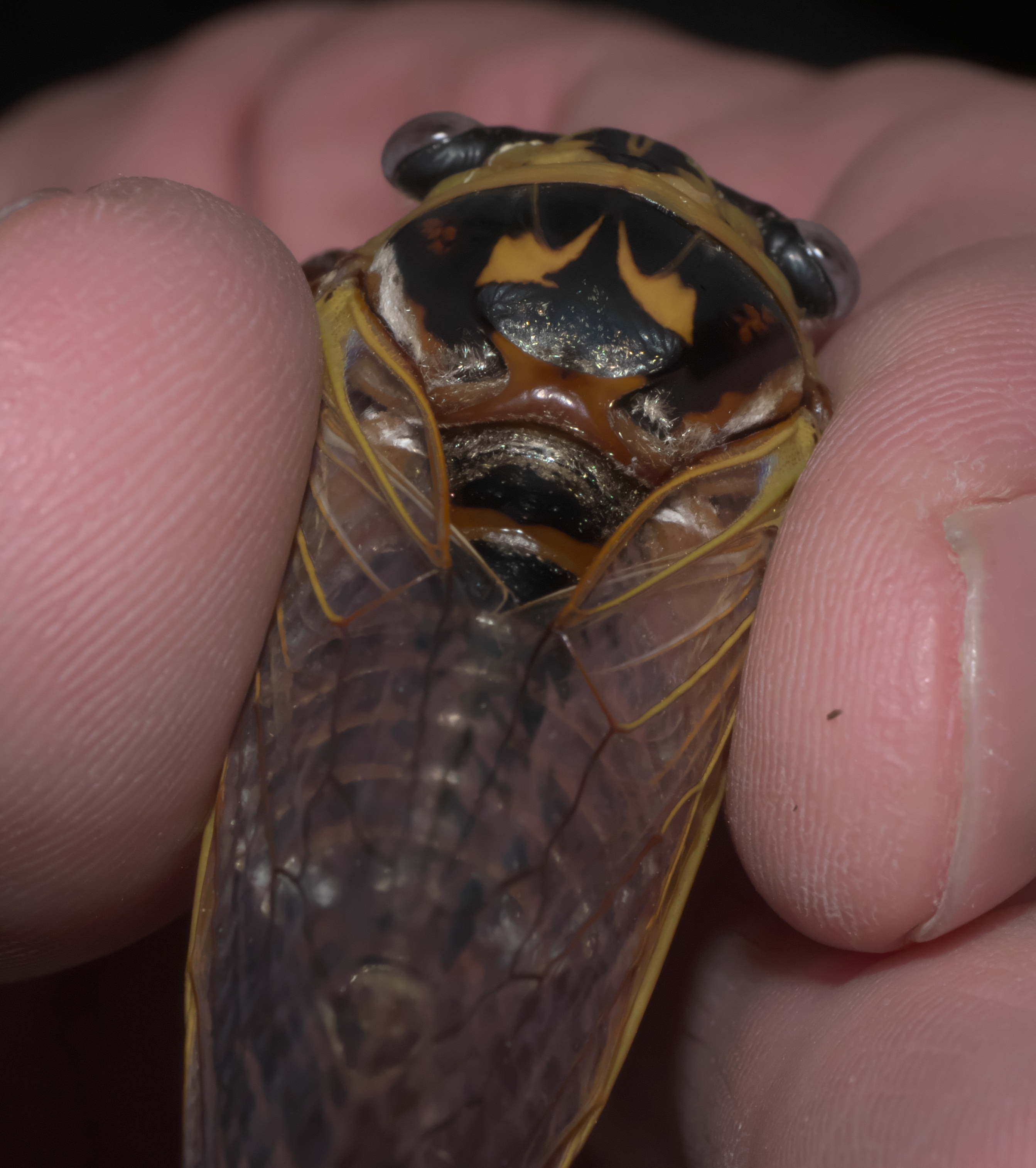 Megatibicen pronotalis, Walker's Cicada, Northern-Western race, or subspecies pronotalis, ID Confidence: 98